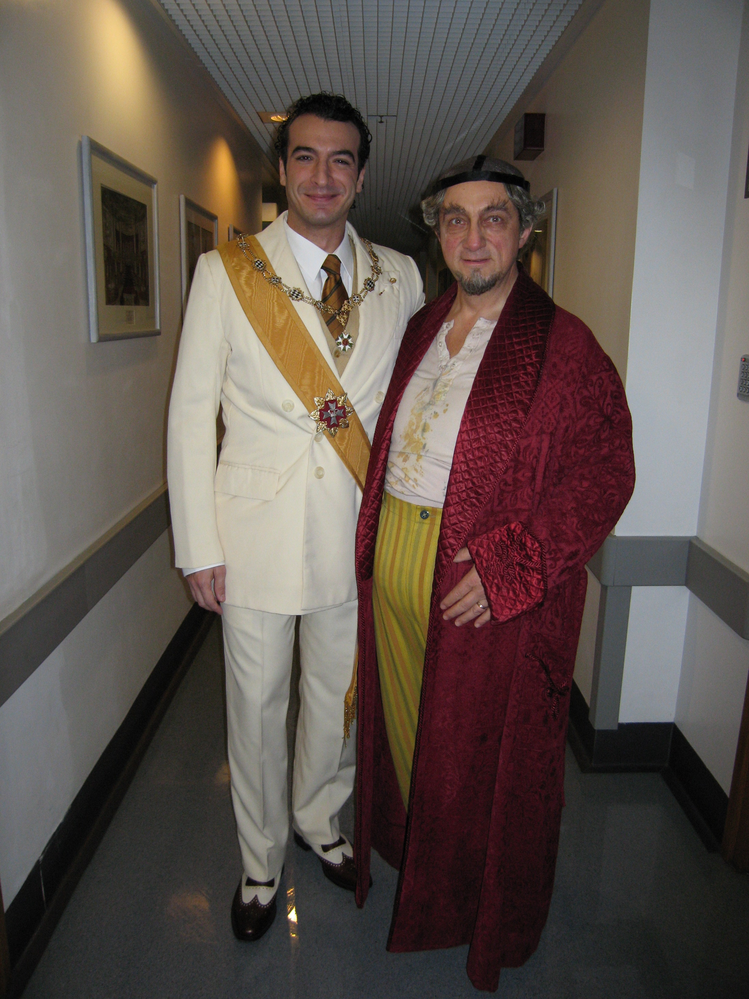 Simone Alberghini (Dandini) with Alessandro Corbelli (Don Magnifico), backstage from a Rossini's Cenerentola at the Royal Opera House, London.